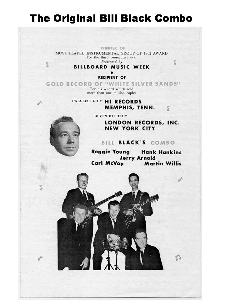 Placard of award for Gold Record status for "White Silver Sands" (Martin Willis' solo sax playing with Bill Black Combo)